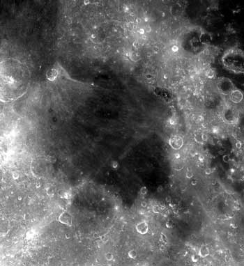 Mare Nectaris is located within the Nectaris basin on the lunar nearside. The basin material is of the Nectarian, and Lower Imbrian epochs, with the mare material of the Upper Imbrian epoch. The crater Theophilus, on the northeastern side of the mare is of the Eratosthenian epoch. Thus, the crater is younger than the mare to its southeast. Montes Pyrenaeus borders the mare to the west. The crater Fracastorius can be seen at the bottom of the photo. The mare material is approximately 1000 m in depth. Enough subsistence has occured to open a few arcuates grabbens on the western margin of the mare.The crater in the lower center of the mare is Rosse